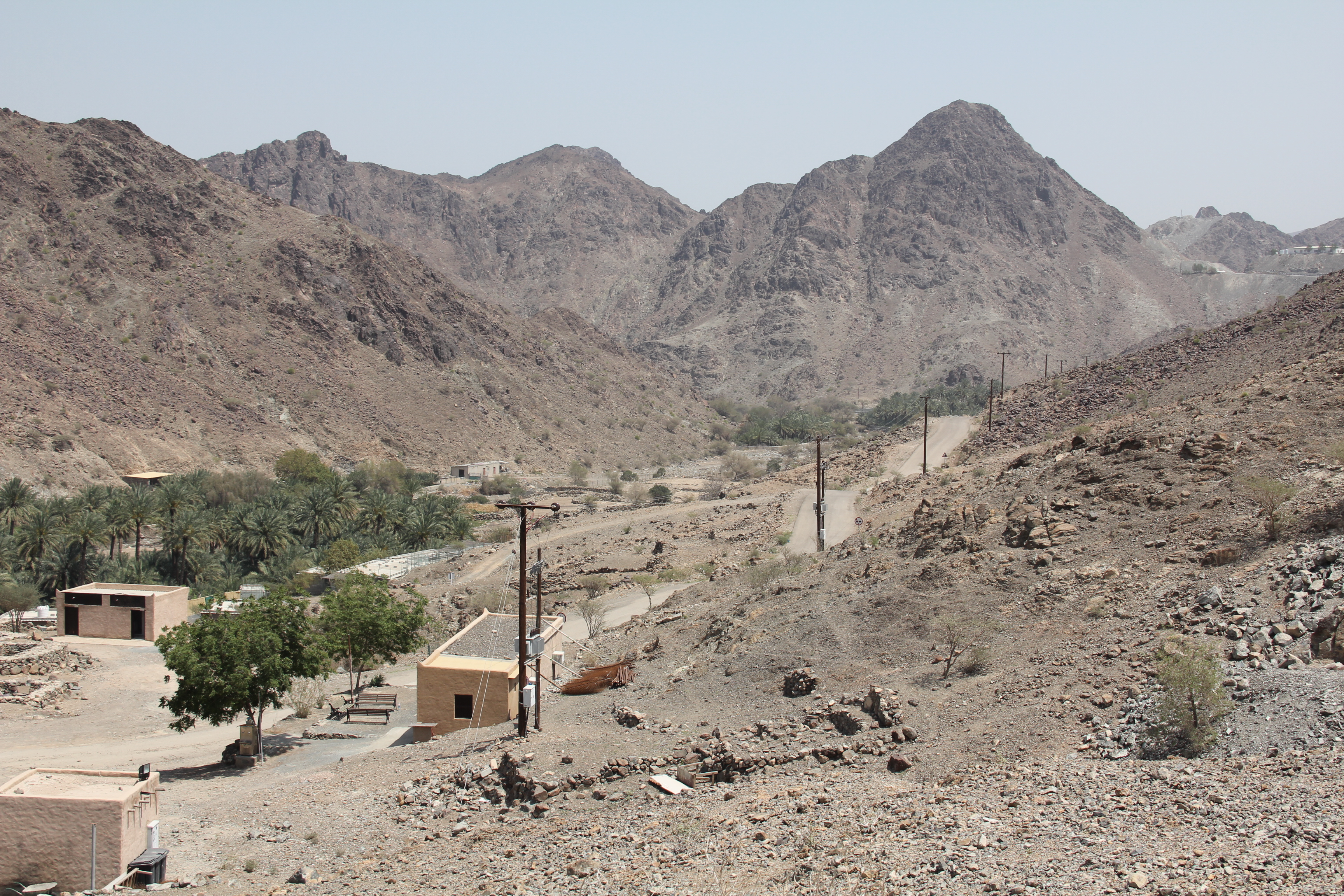 Nature site in Fujeirah during March 2017.